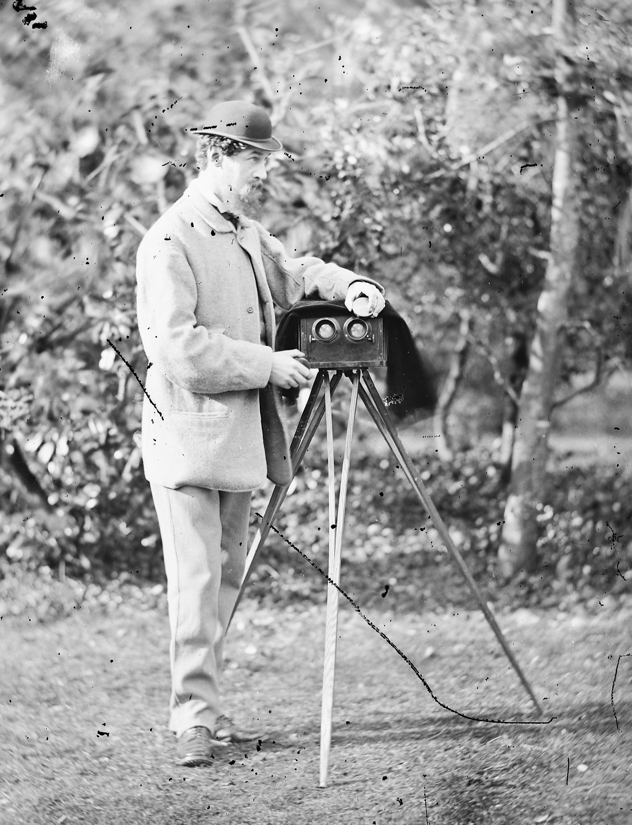 Down the 'Wesht' today to the Clonbrock collection with a true "Golden Oldie"! Lord Dunlo with a stereo camera in 1864 makes this so interesting for all kinds of reasons. The camera looks quite intriguing and the actual image has the look of a lantern slide about it? Photographers: Dillon Family Contributors: Luke Gerald Dillon, Augusta Caroline Dillon Collection: Clonbrock photographic Collection Date: February 20, 1864. NLI Ref: CLON490 You can also view this image, and many thousands of others, on the NLI’s catalogue at